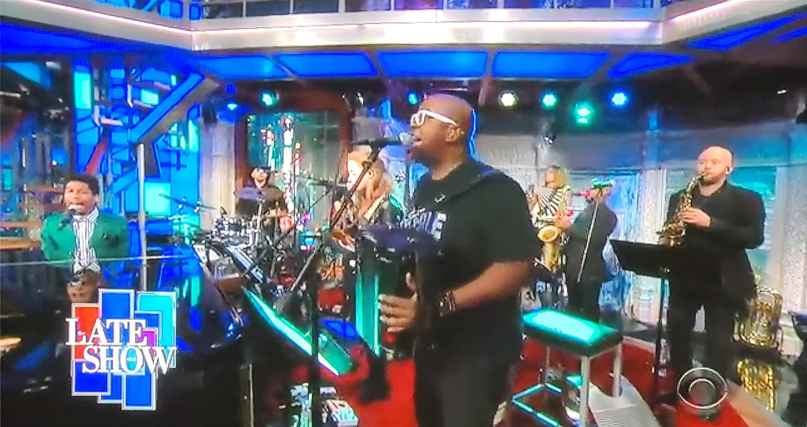 Cell phone picture of Sean Ardoin performing on The Late Show with Stephen Colbert